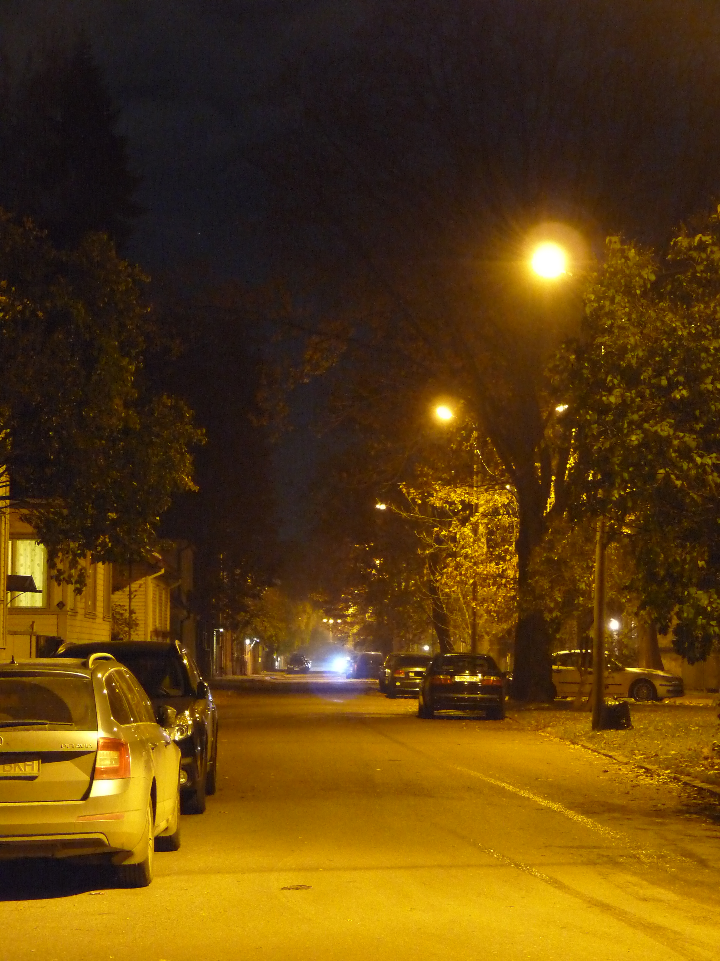 Kibuvitsa street in Tallinn, Estonia.